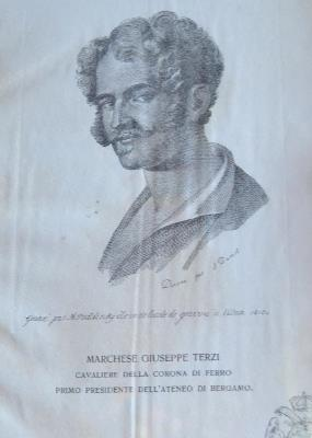 Marchese Giuseppe Terzi